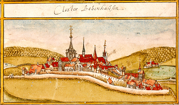 View of Bebenhausen, Tübingen, from the forest register books created by Andreas Kieser